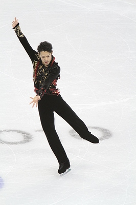 Daisuke Takahashi performs his short program 'Eye' by Coba, Olympic Games in Vancouver (2010)